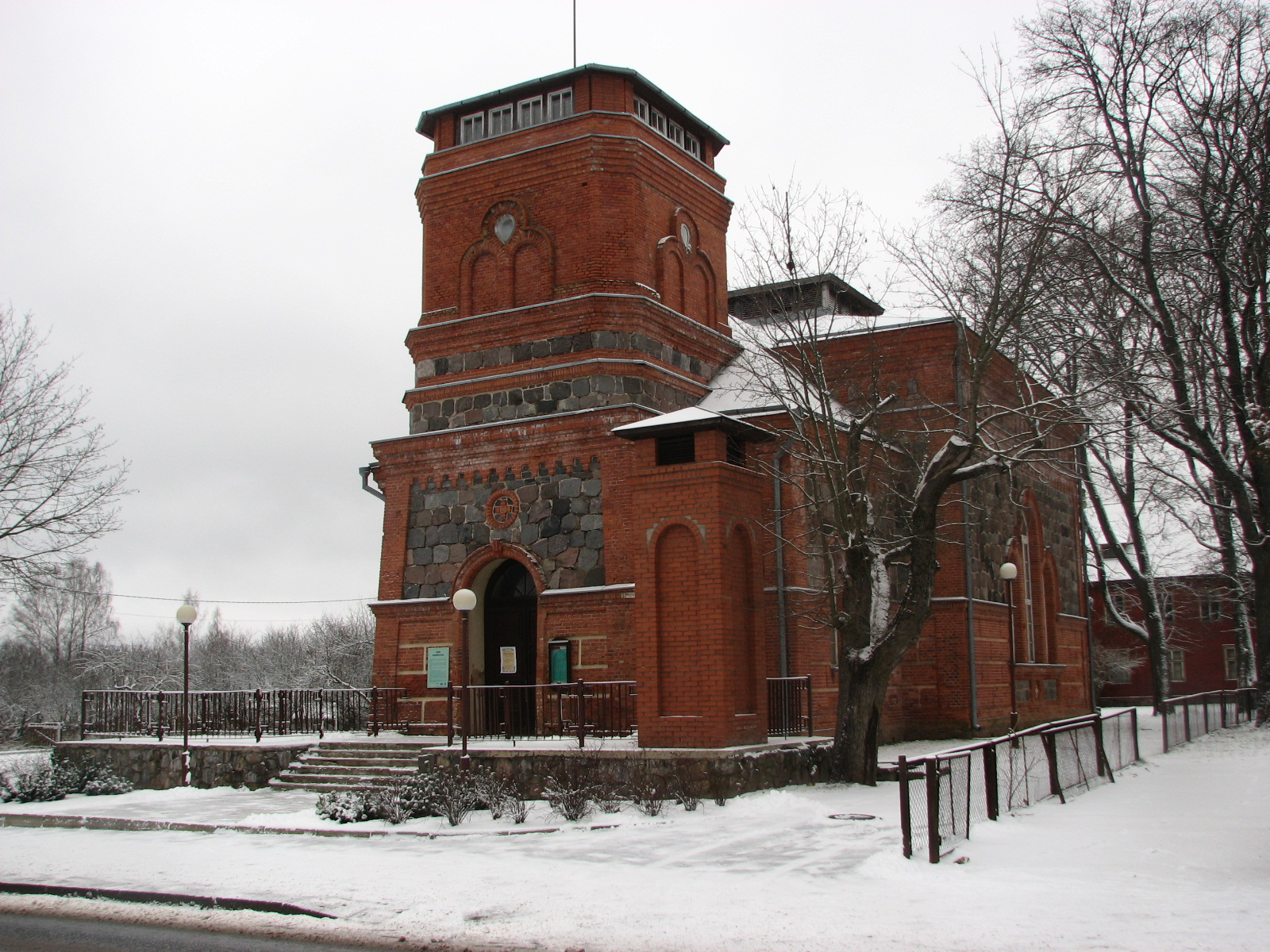 Tõrva church in Tõrva, Estonia